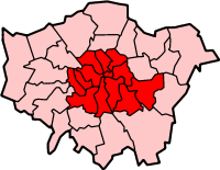 Inner London (administrative).